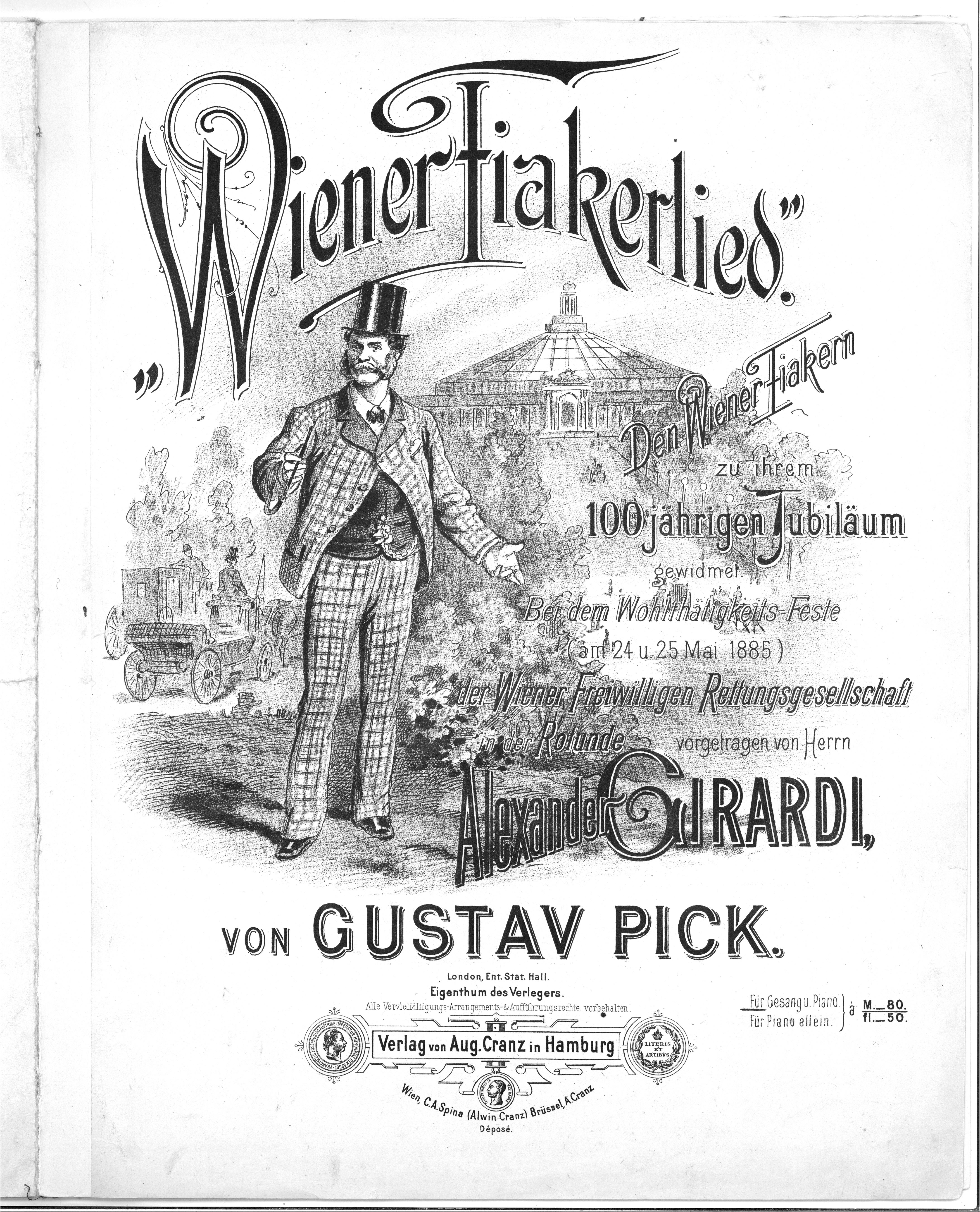 Viennese Cab Song, cover; Publisher August Cranz, Hamburg.